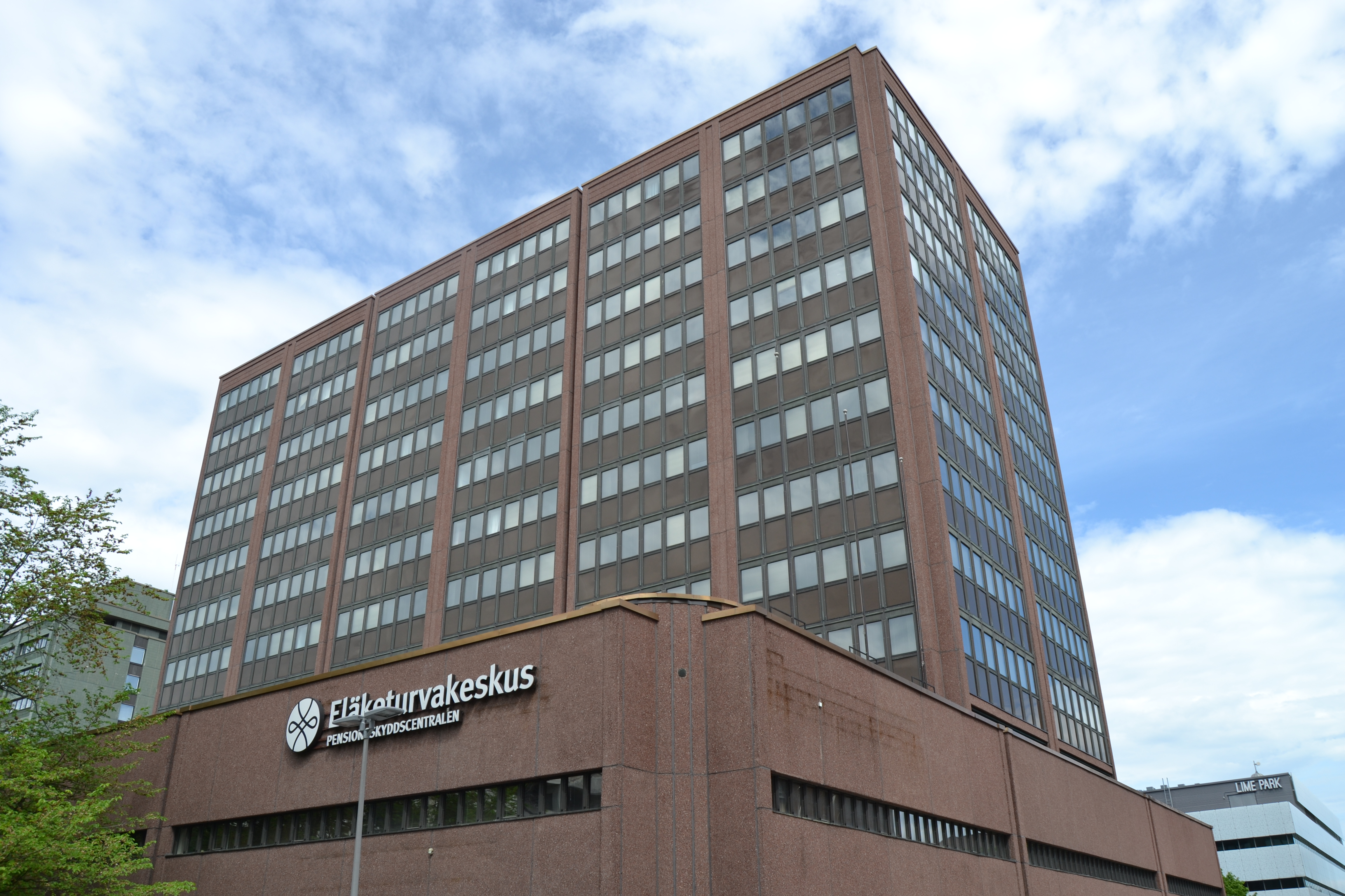 Building of Finnish Centre for Pensions in Pasila, Helsinki